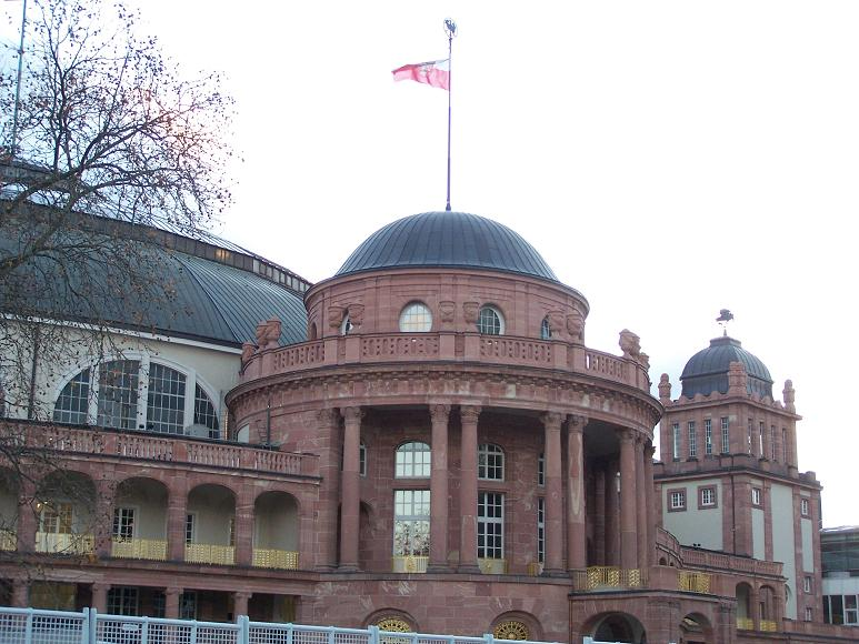 Festhalle